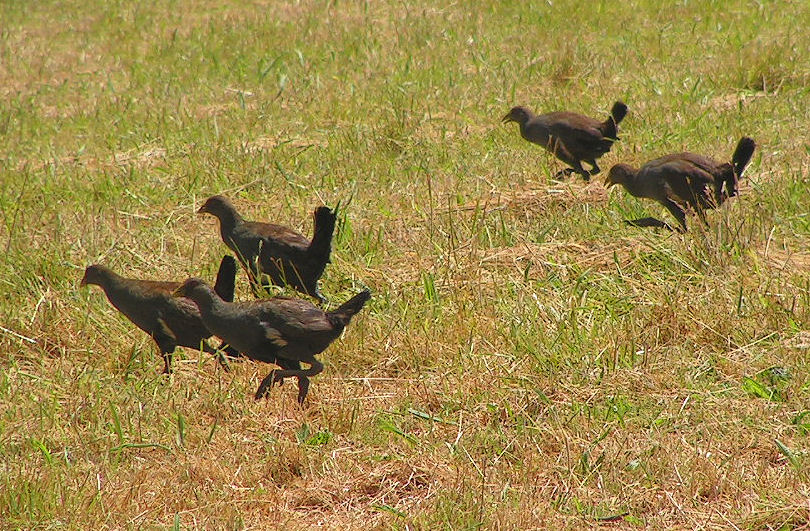 Flock of Tasmanian Native-hens (Gallinula mortierii) running, Bruny Island, Tasmania